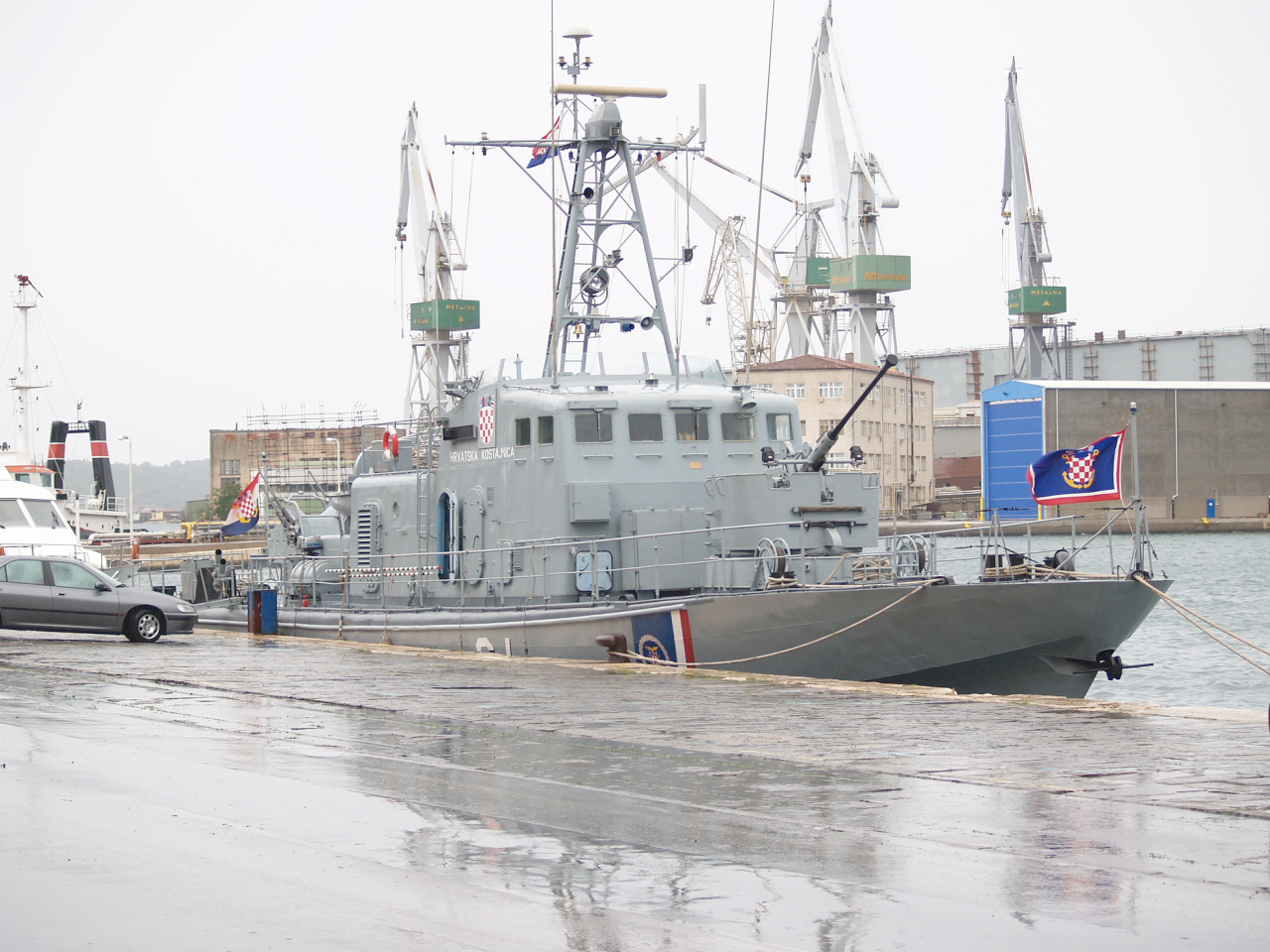 Patrol boat: OB-64 Hrvatska Kostajnica Country: Croatia Builder: Kraljevica Shipyards, Croatia Displacement ( tons ): 143 full load Dimensions ( metres ): 32 x 6,75 x 1,7 Main machinery: 2 x SEMT-Pielstick 12PA4V200VGDS diesels ( 5.292 hp ) Speed ( knots ): 28 Range ( miles ): 600 at 15 knots Complement: 22 ( 2 officers ) Guns: 1 x Bofors L70 40mm/70, 1 x M71 Hispano 4x20mm/90 Missiles: SAM: 1 x Fasta-4M system ( 12 x SA-7 Grail/Igla missiles ) A/S Mortars: 8 x Type MDB-MT3 ( depth charges ) Radar: Navigation: 1 x Decca RM1216A or RM1216C Sonar: Simrad SQS-5Q3D/SF hull-mounted, high frequency Comment: ex - Durmitor, PC 181. Captured in Sibenik, in 1991..